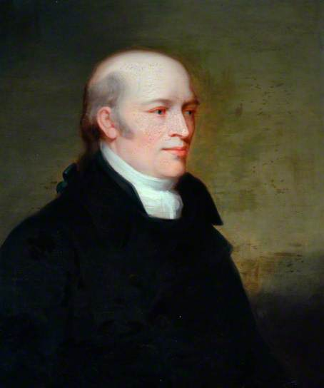 (c) Calderdale Metropolitan Borough Council; Supplied by The Public Catalogue Foundation